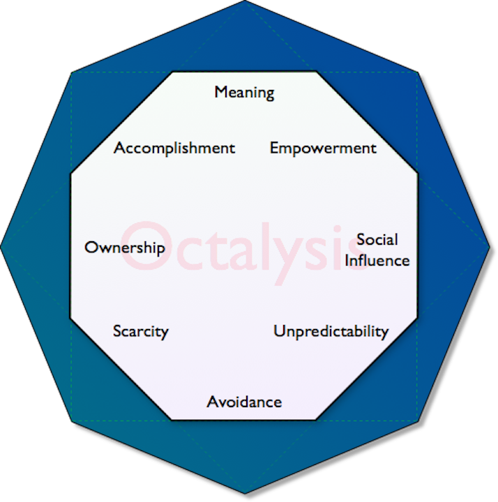 The Octalysis Framework, created by Yu-kai Chou. This is a internationally known system on behavioral design and gamification.